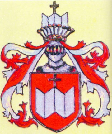 Syrokomla Coat of Arms